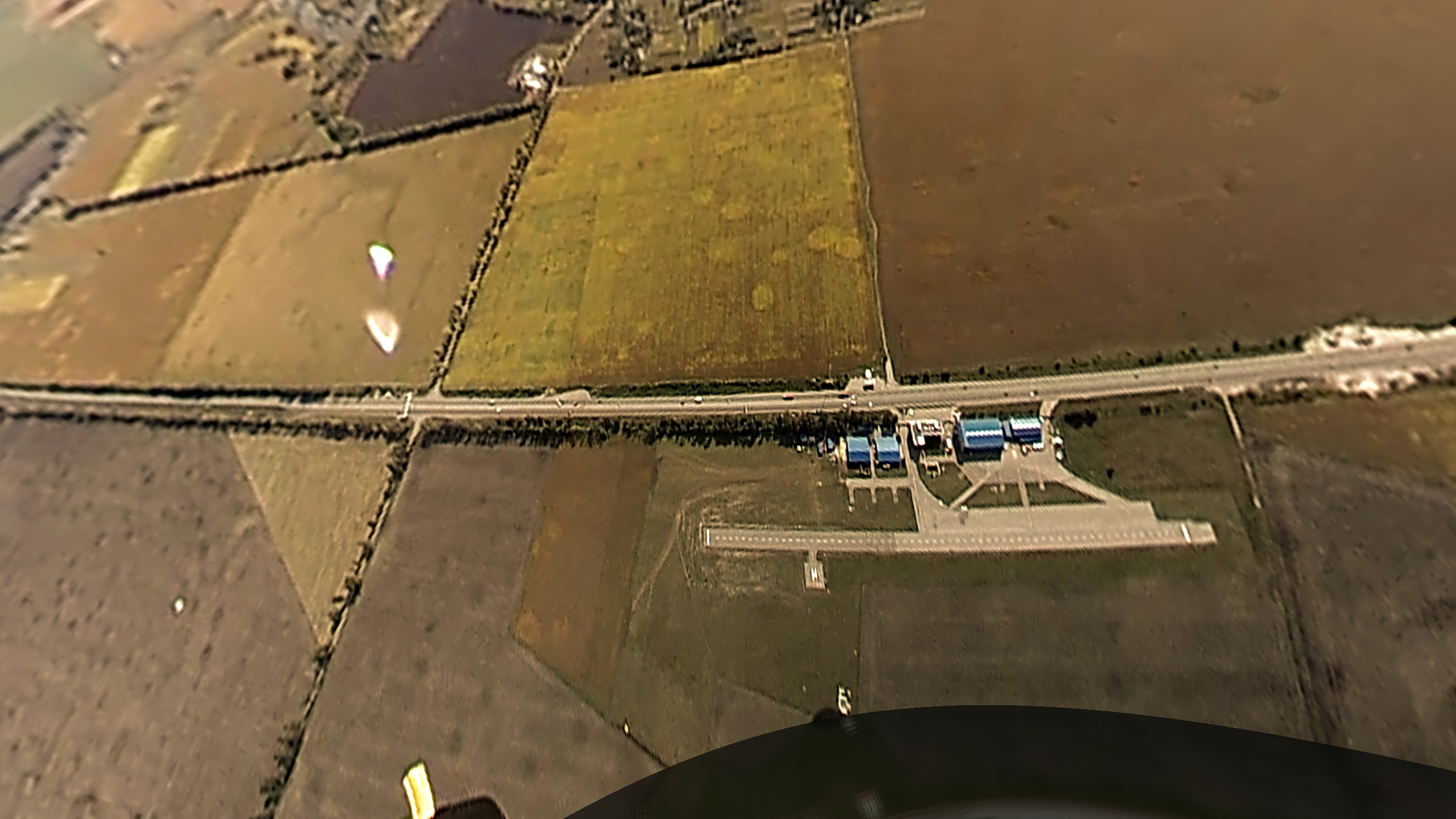 The view on the Skydiving airfield Dropzone 5 Ocean from skydiver helmet